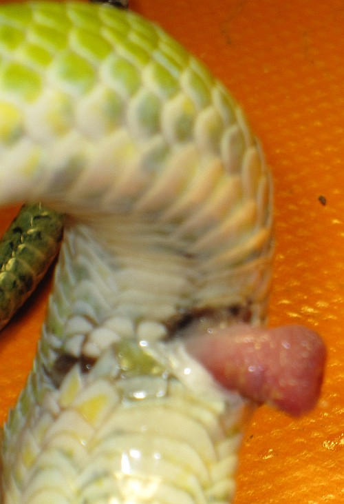 prolapse of the hemipenis in a green tree python (Morelia viridis)